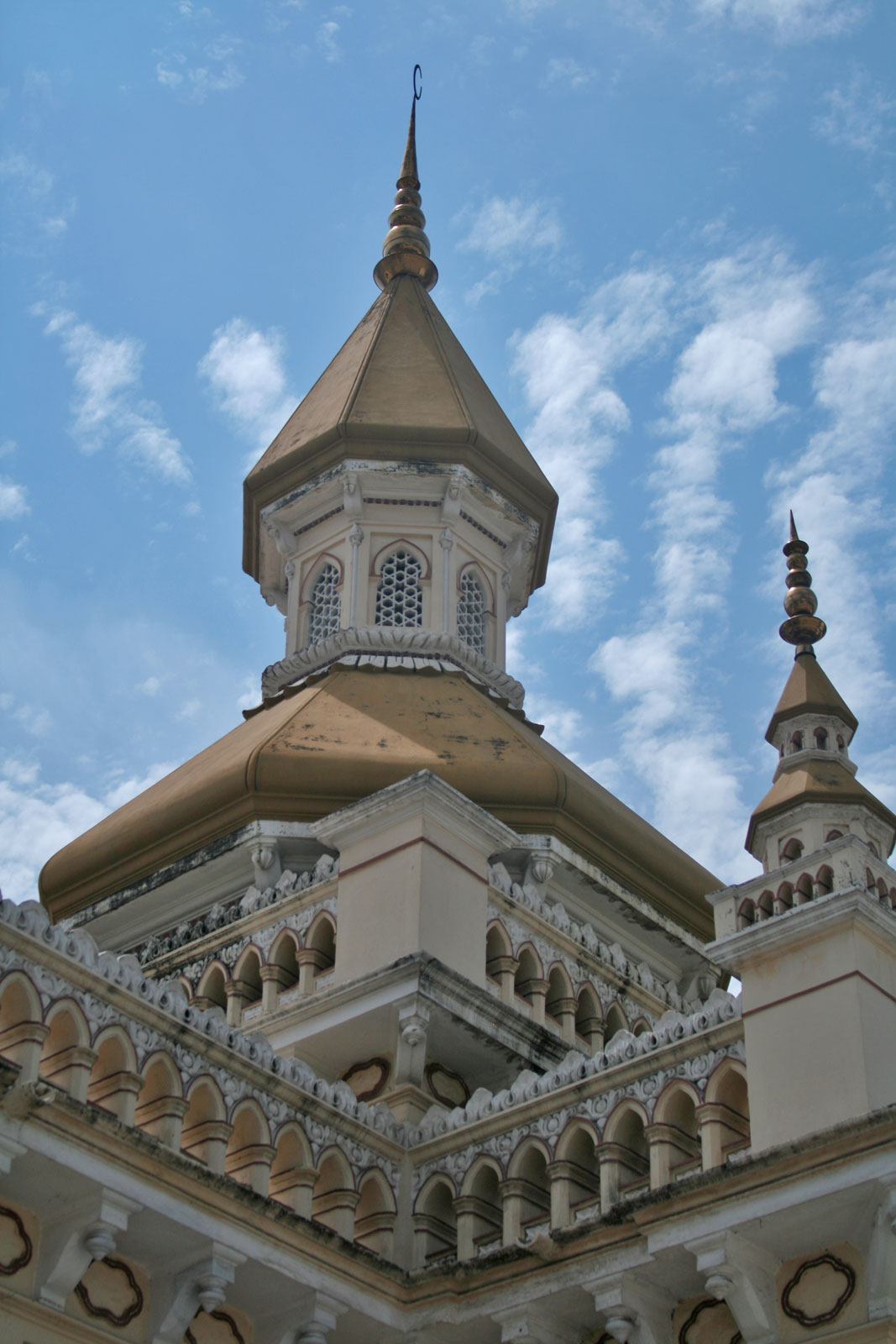 View of the Mosque at Hyderabad, India. Taken on June 3, 2007 by Flickr user: Maduraikaaran Travels Uploaded to Wiki by user:nikkul